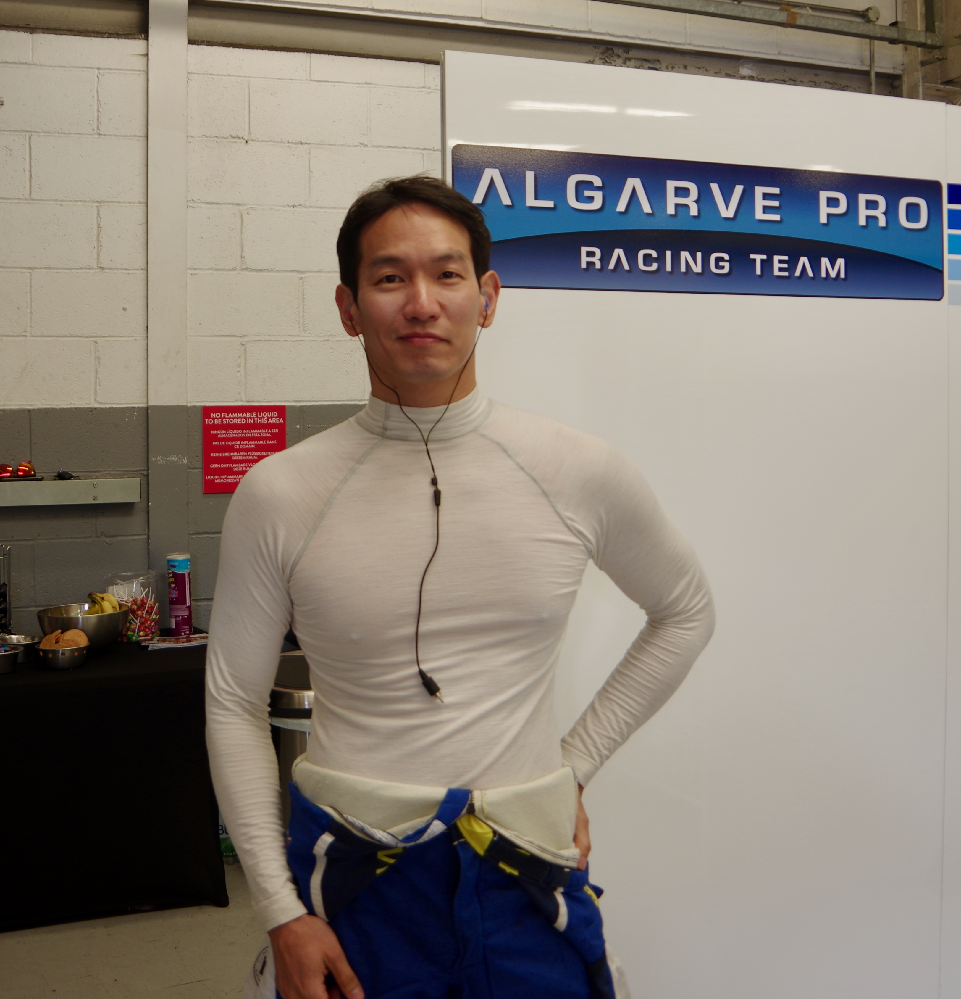 European Le Mans Series Silverstone 2019 - The 4 Hours of Silverstone